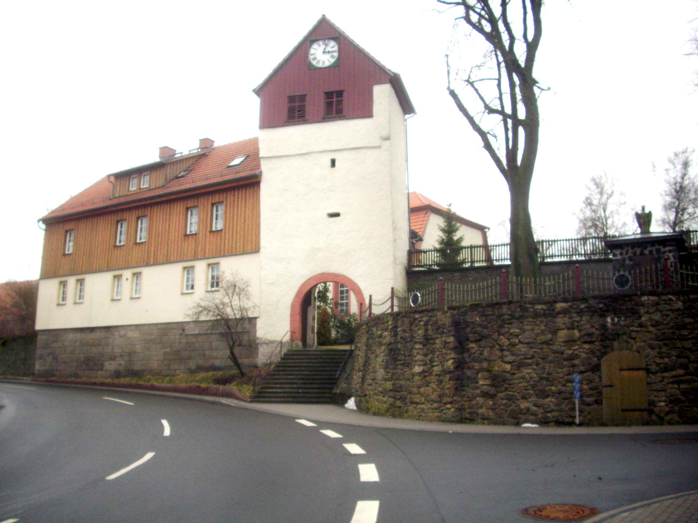 Kaltenwestheim (Church-Castle); District of Schmalkalden-Meiningen; Federal State (and Free State) of Thuringia; Germany Build in the 14./15th century; later changes; of special interest: Remaining parts of the curtain; gate tower with two upper levels and loop holes.